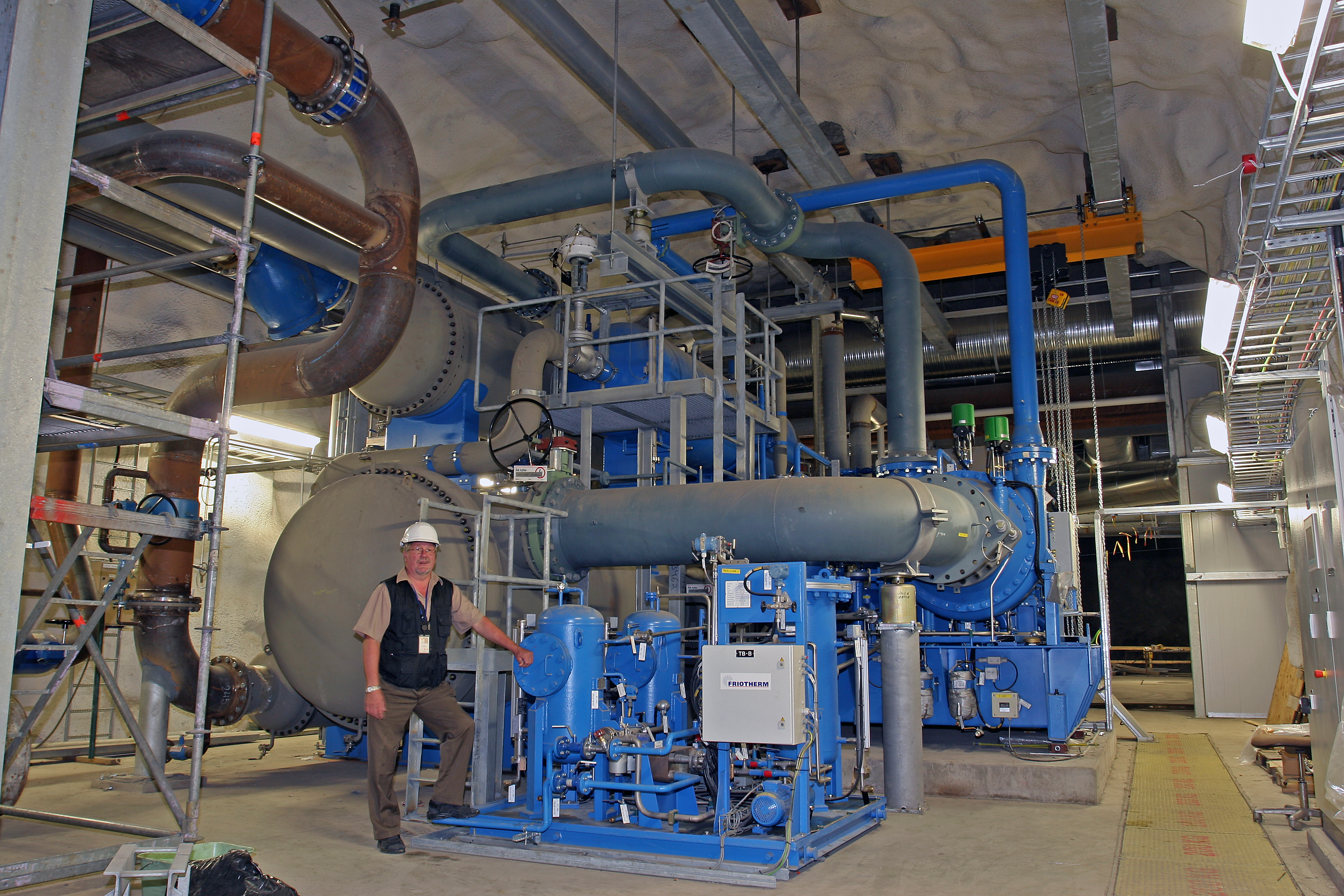 Katri Vala Heating and Cooling plant, Helsinki, Finland